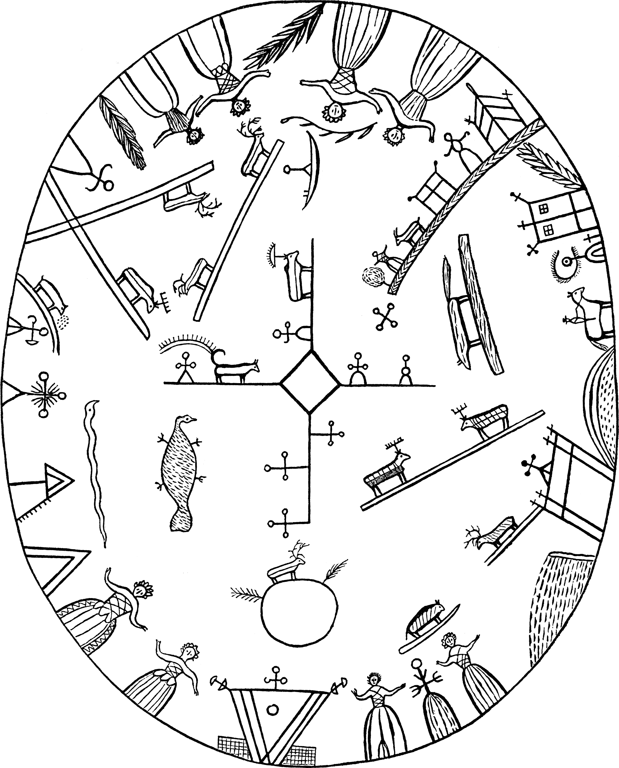 Sami drum of undefined origin. Described and depicted by Jens Andreas Friis in his book Lappisk mythologi, eventyr og folkesagn (1871); later also discussed in Sigurd Agrell's Lapptrummor och runmagi (1934). Now lost, according to in Ernst Manker's Die lappische Zaubertrommel (1938; p 63).